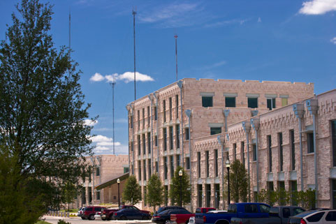 This is a picture I took of the Cedar Hill Government Center.